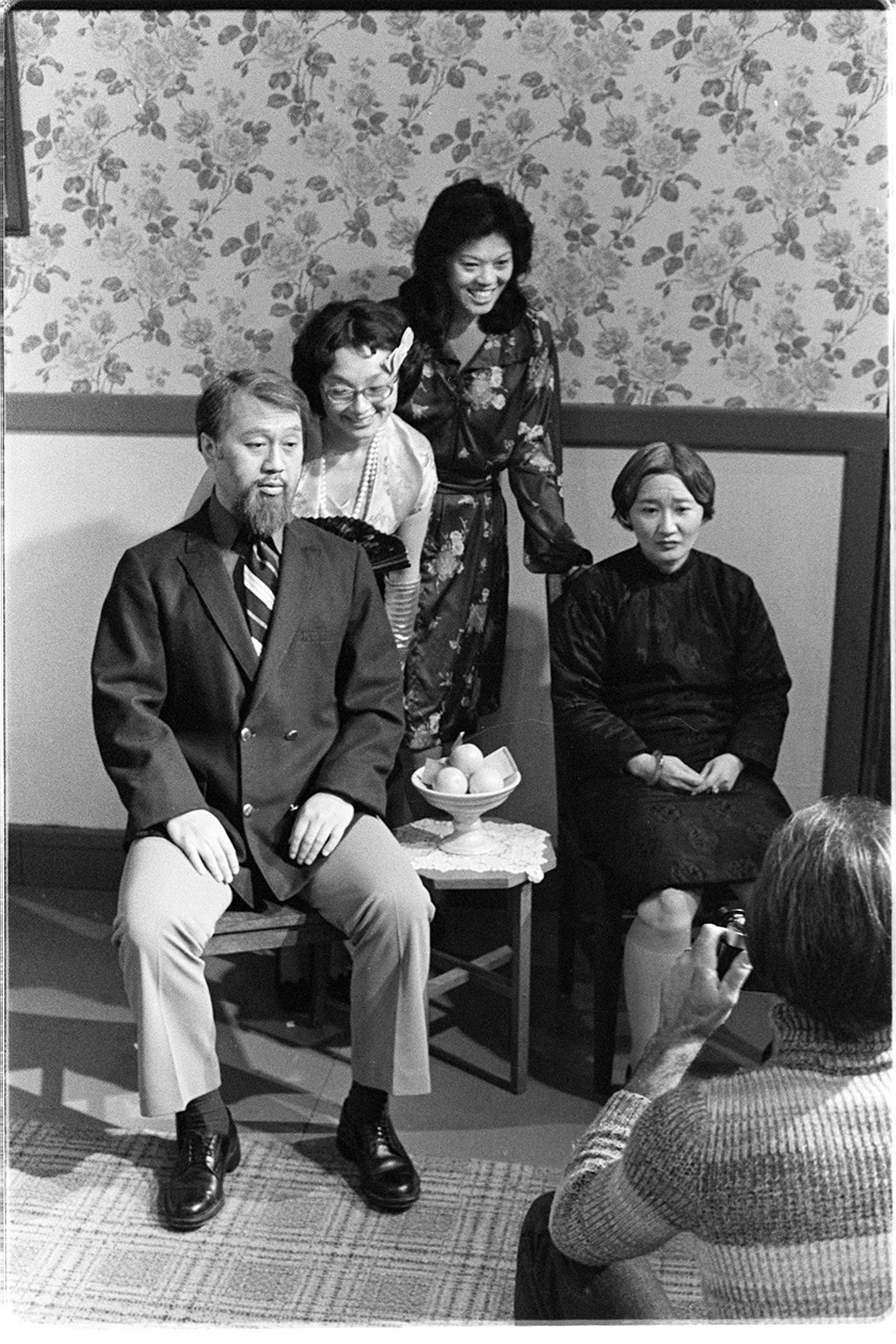 Actor Kathleen Chang (standing in the middle) in the cast of The Asian American Theater Workshop's "The Year of the Dragon," 1978 in San Francisco, California. Photograph by Nancy Wong